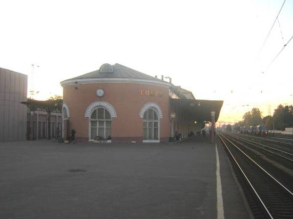 Tver railway station.